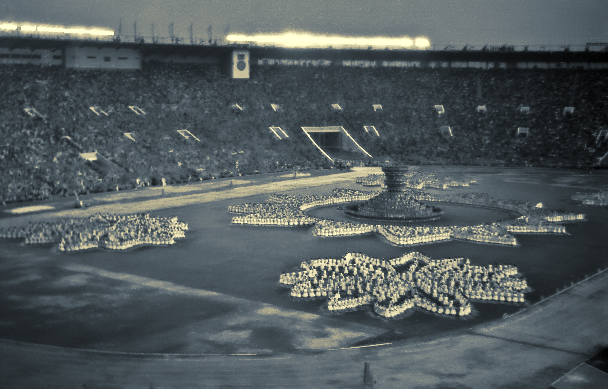 6th World Festival of Youth and Students (1957). Opening day in the Lenin-Stadium. - You may want to have a look at my website (in German)